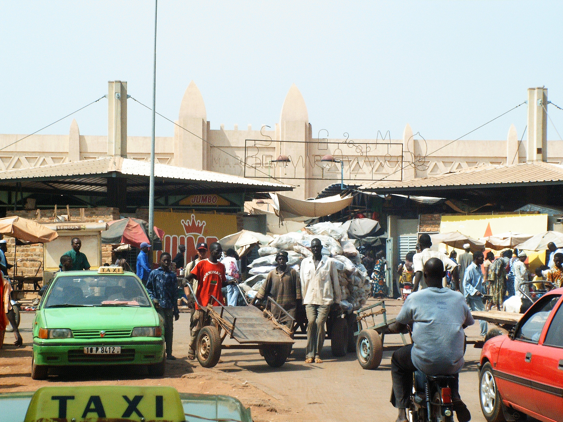 Central Market in Bobo-Dioulasso, Burkina Faso picture taken by author